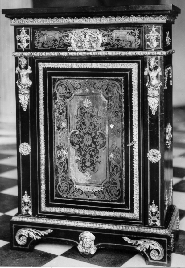 Photograph